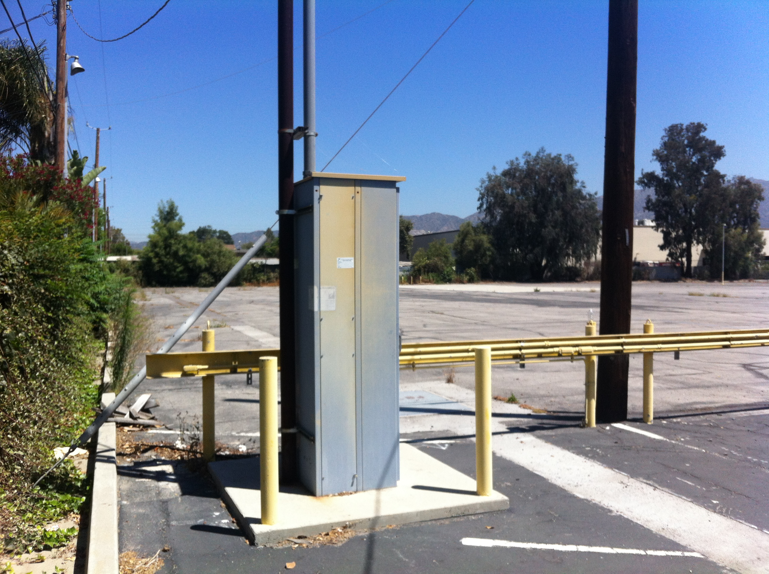 Abandoned EV1 parking lot and power transformer at the former GM Training Center in Burbank, California. The facility will be developed into a private French language immersion school, and this parking lot will become an athletic field.